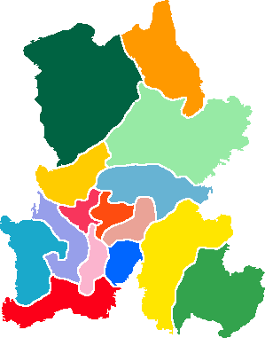 Subdivision of Kunming